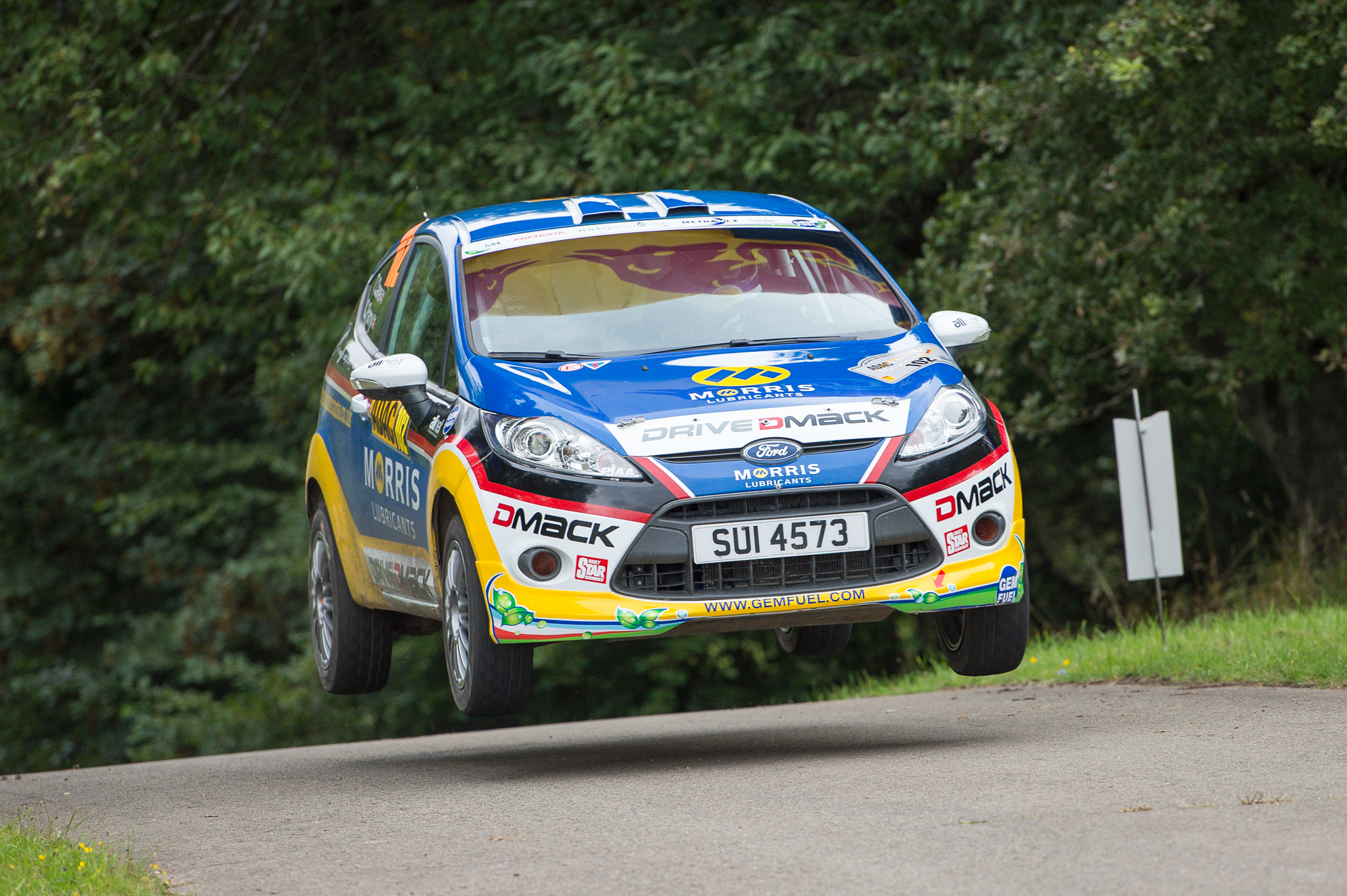 ADAC Rallye Deutschland 2014,Craig Parry,FIA,FIA World Rally Championship,Ford Fiesta R2,Gina,Motorsport,Panzerplatte,Rally,Rallye,SS10,Tom Cave,WP10,WRC